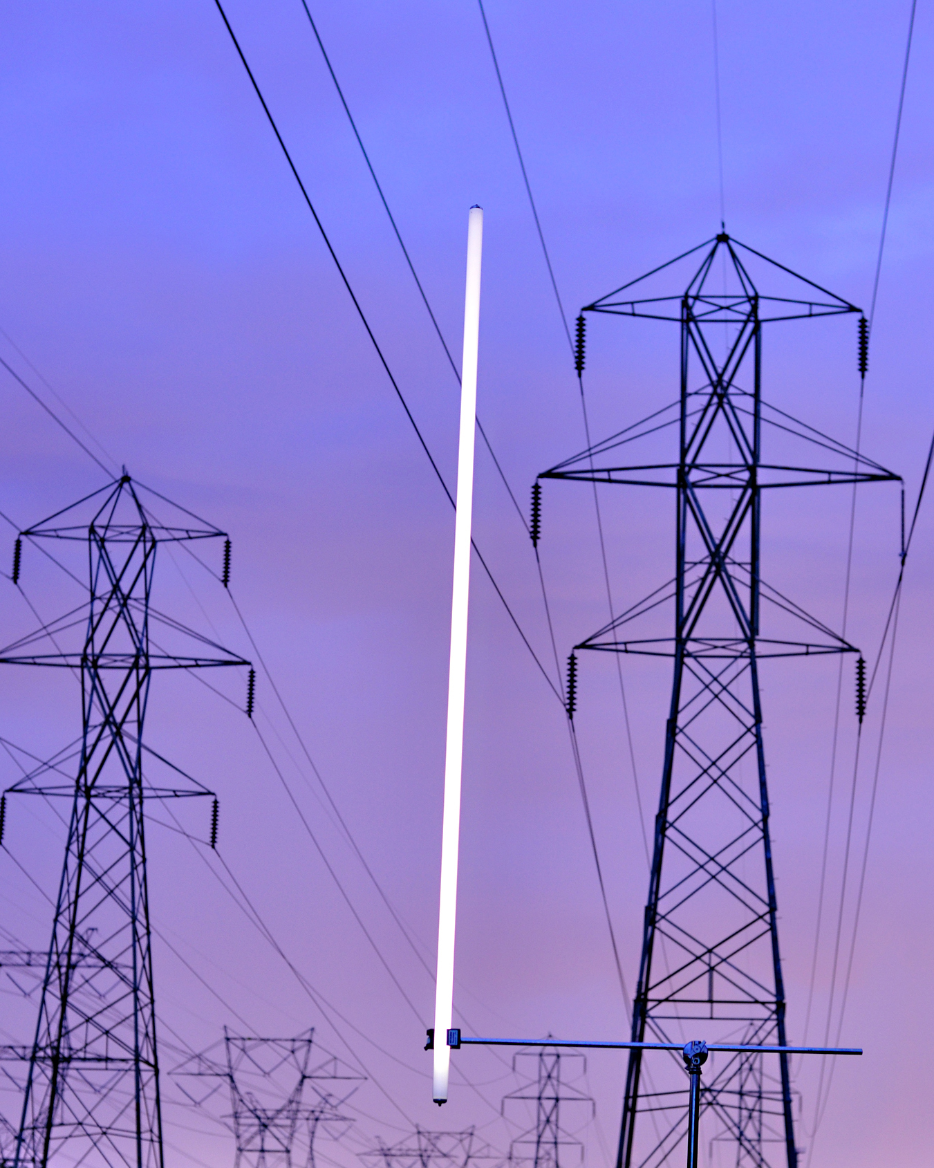 Fluorescent tube glowing in the electromagnetic field under high voltage power transmission lines, so called "navigated voltage" which you can see near HV lines. The fluorescent lamp shown here is 8 ft (2400 mm) long.